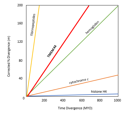 Graph of the rate of evolution of TMEM44 compared to other proteins